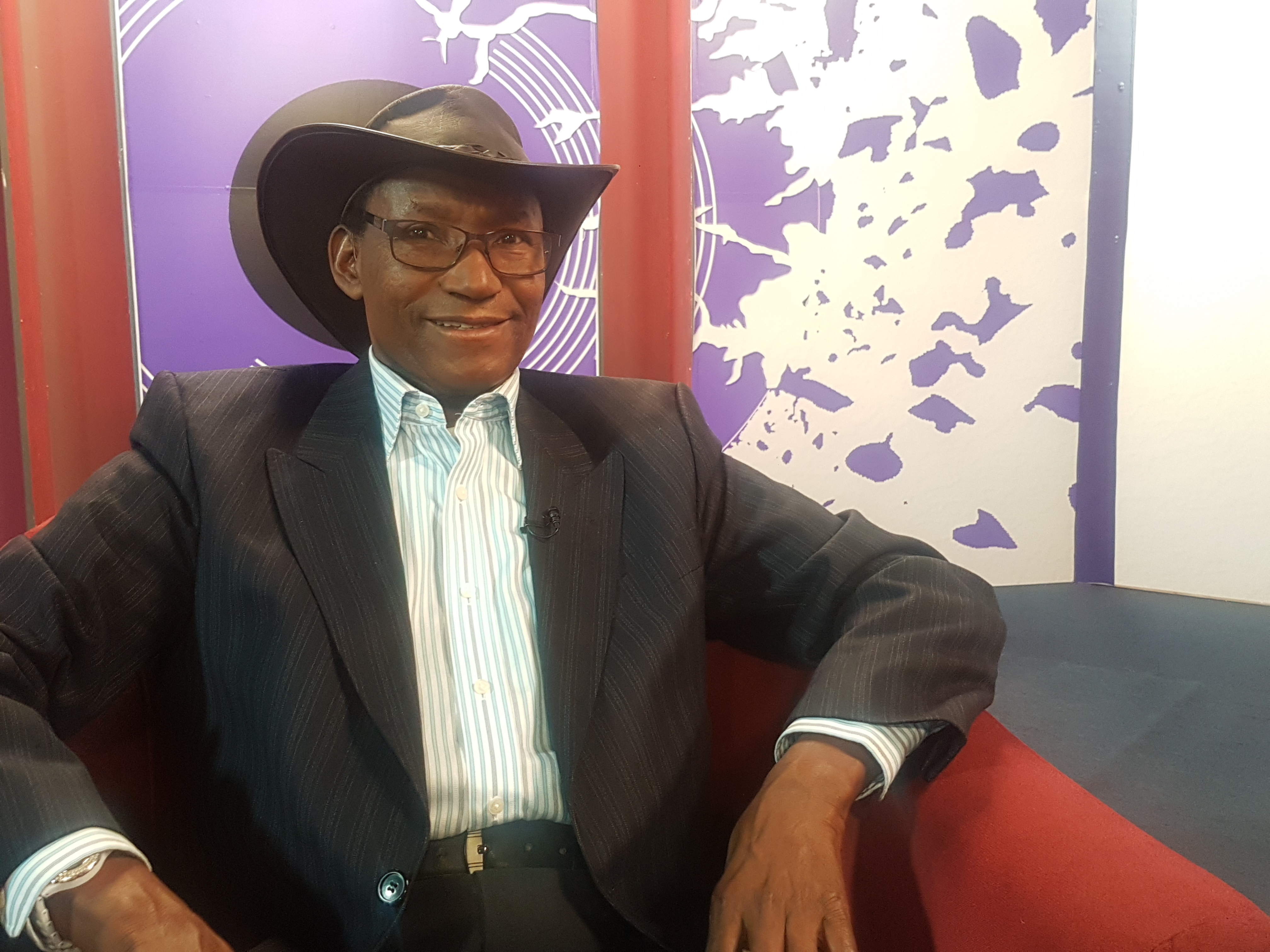 Dr. Charles Mulli at the KTN Tukuza Show